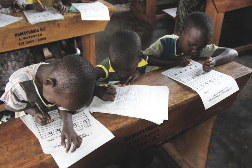 Students at the Building Tomorrow Academy of Buwasa sat for their National Exams in the fall of 2010.